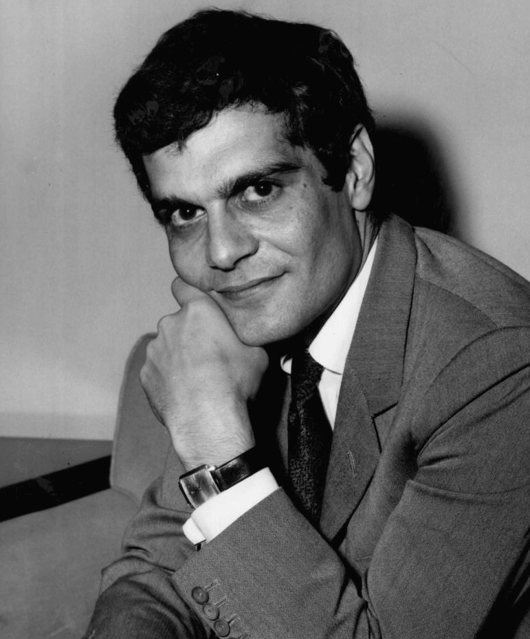 Photo of actor Omar Sharif.